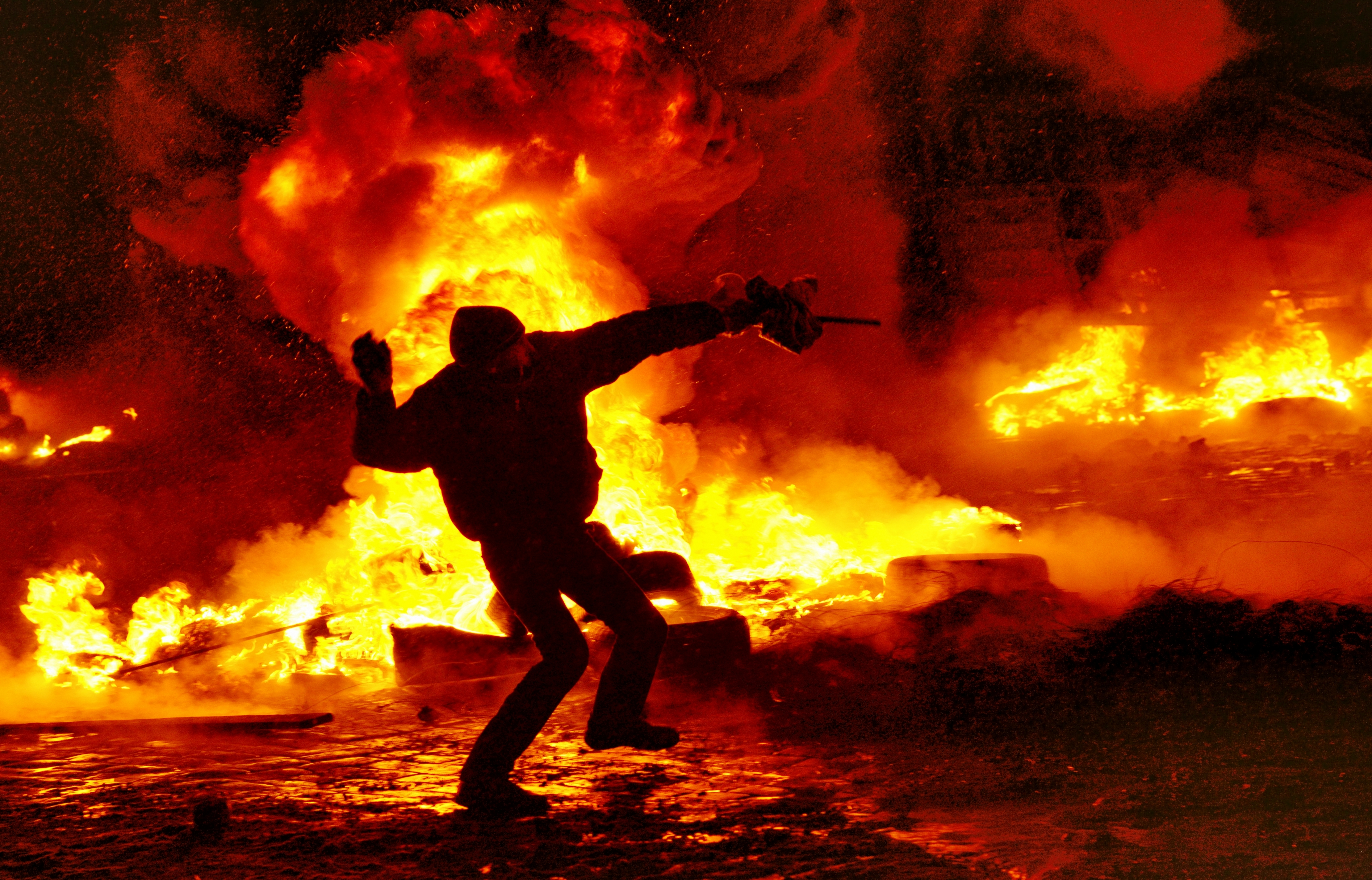 Kiev, Grushevskogo str. 22.01.2014